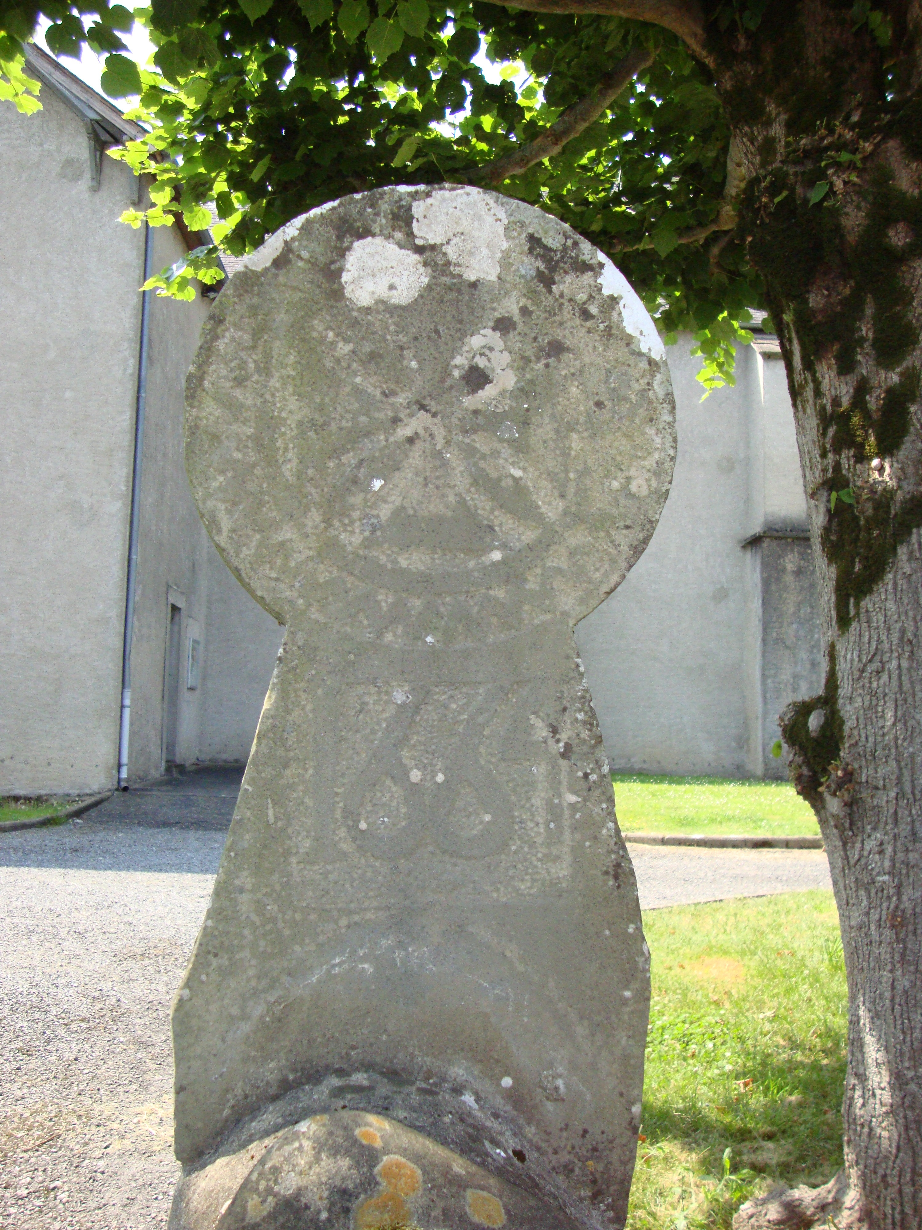 Chéraute (Pyr-Atl, Fr) stele 2 at the entrance of the churchyard (former cemetery).